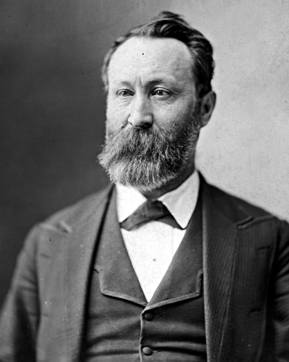 William M. Robbins, US Representative from North Carolina